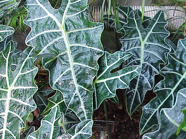 Species: Alocasia sanderiana Family: Araceae Image No. 4